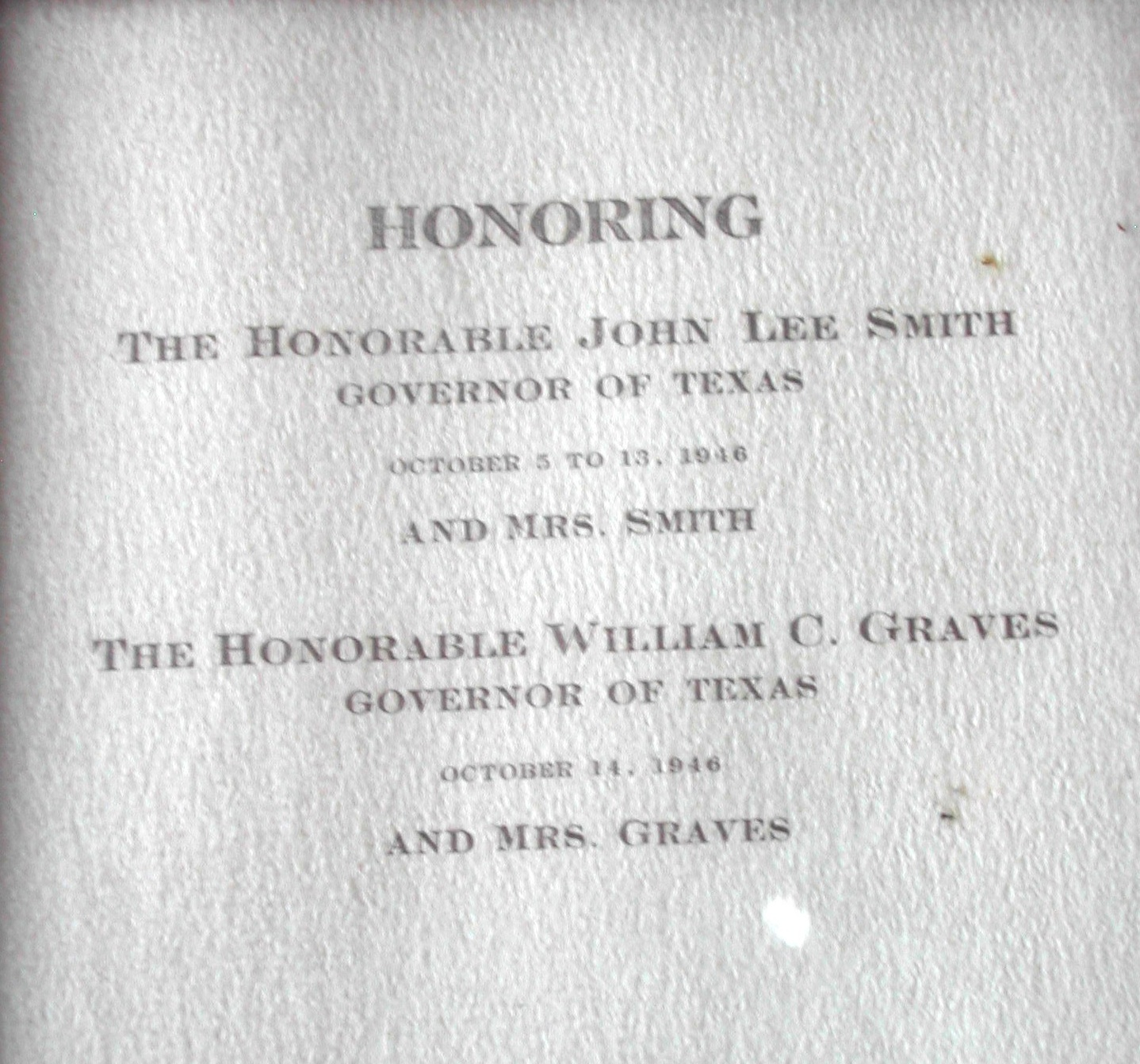 Document, including Texas State Seal, of roster Governor of Texas duties for Governor Coke R. Stephenson departure during tenancy.